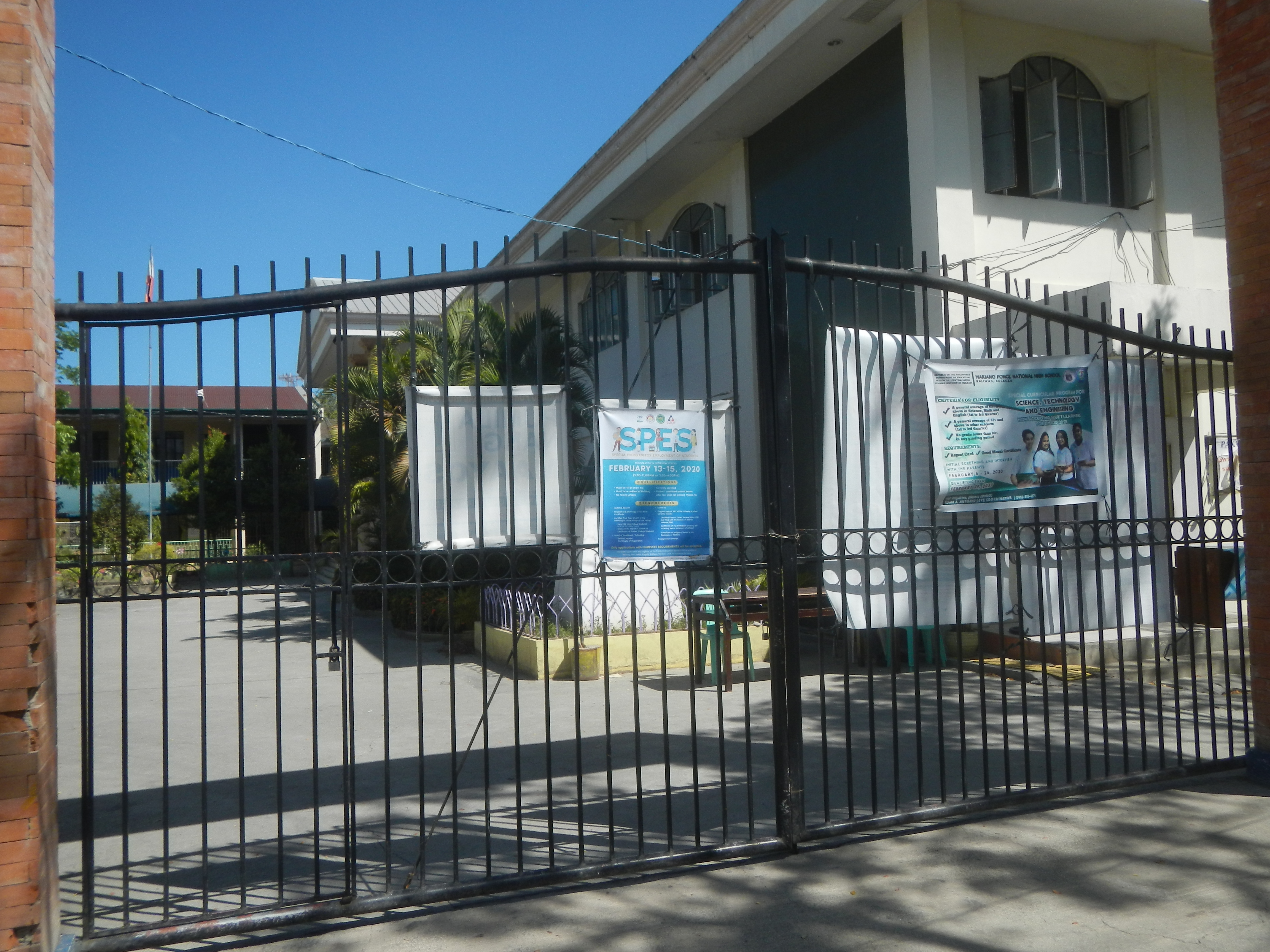 2020 Baliuag enhanced community quarantine (public transport, closed shops-establishments, documents-guidelines-signs) Baluag home quarantine pass is a privilege granted only to 1 household head of Barangay Poblacion, Baliuag, Bulacan, who may buy food or medicine during curfew or lockdown hours and or areas issued by Baliuag Philippine National Police branch or station's Chief under DILG; 2020 Baliuag enhanced community quarantine (lockdown – curfews) 2020 coronavirus pandemic in the Philippines 307 cases 2020 Luzon enhanced community quarantine Lockdown Curfew in Barangay Poblacion 14°57'17"N 120°54'2"E, Baliuag, Bulacan, Bulacan province Baliuag town enhanced community quarantine (lockdown): Convid-19 2020 This category includes Barangays Santo Cristo, Bagong Nayon, San Jose and Poblacion, Baliuag, Bulacan: virtual ghost town - where all schools, stores, malls and shops are closed as announced until further orders; only hospitals, markets, SM hypermart, drug store, convenience stores, Jollibee and McDonald's are open for very limited hours and for take-out, no dine-in; 24 hour curfew is imposed with exceptions of: one member of a family is given a quarantine pass only within a Barangay from or along MacArthur Highway or Manila North Road) Philippine highway network (Note: Judge Florentino Floro, the owner, to repeat, Donor Florentino Floro of all these photos hereby donate gratuitously, freely and unconditionally Judge Floro all these photos to and for Wikimedia Commons, exclusively, for public use of the public domain, and again without any condition whatsoever).